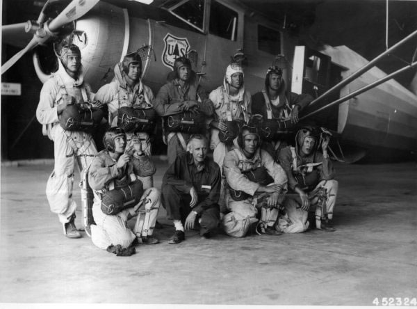 1948—A smokejumper crew, based at Deming, New Mexico, ready for a fire. Photo by E. L. Perry FS #452324